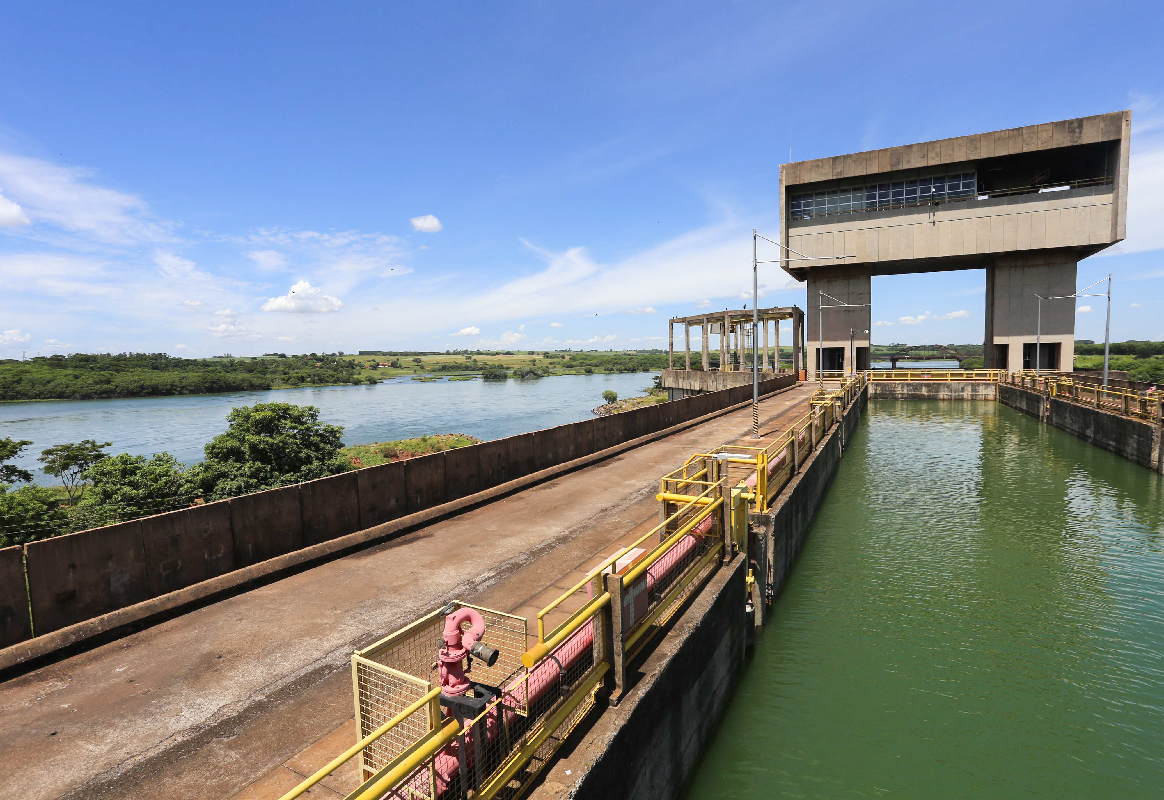 O governador do estado de São Paulo, dá início às obras de ampliação e derrocamento do Canal de Navegação da Eclusa de Nova Avanhandava. Data: 23/02/2017. Local: Buritama/SP. Foto: Gilberto Marques/A2img